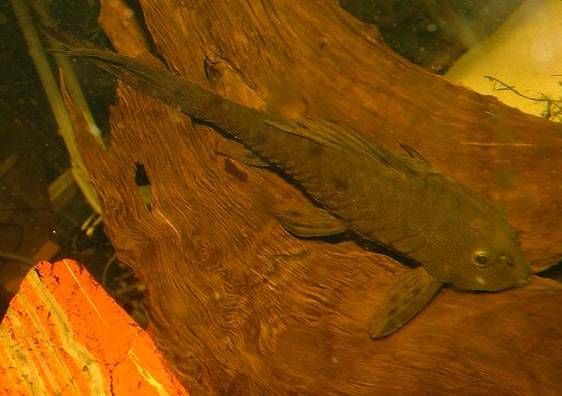 Pseudorinelepis genibarbis (Valenciennes 1840), photographed by Uncle Davey, author of the article on Pseudorinelepis, of his own fish. Photo also appears on UD's own website, and was taken by Fujipix digital camera in 2004.